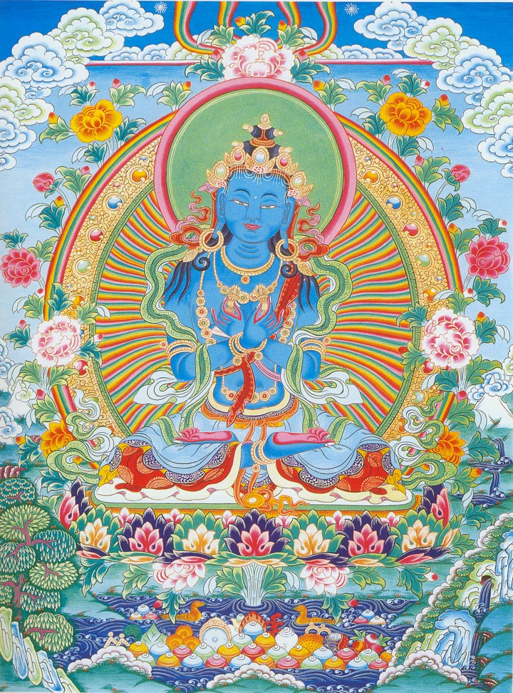 Vajradhara